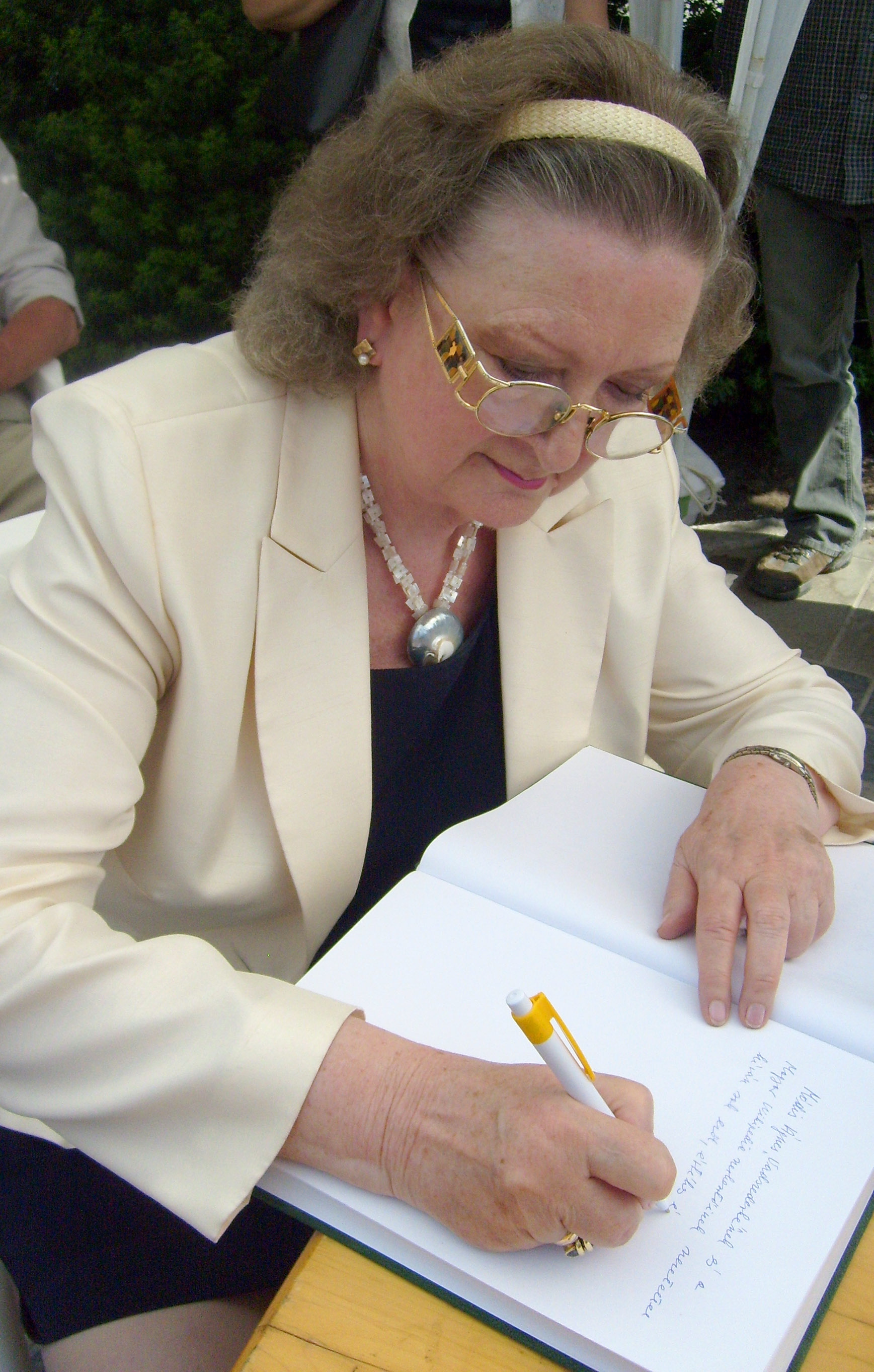 Anna Jókai hungarian writer in Miskolc.